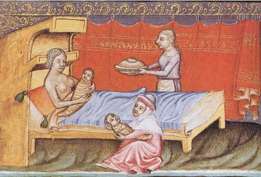 Birthscene (Wenzel Bible)